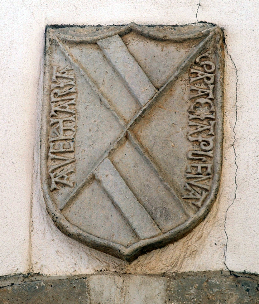 Coat of arms of the House of Mendoza in the birthplace of Íñigo López de Mendoza, Marquis of Santillana, in 1398 in Carrión de Los Condes (Palencia, Castile and León).